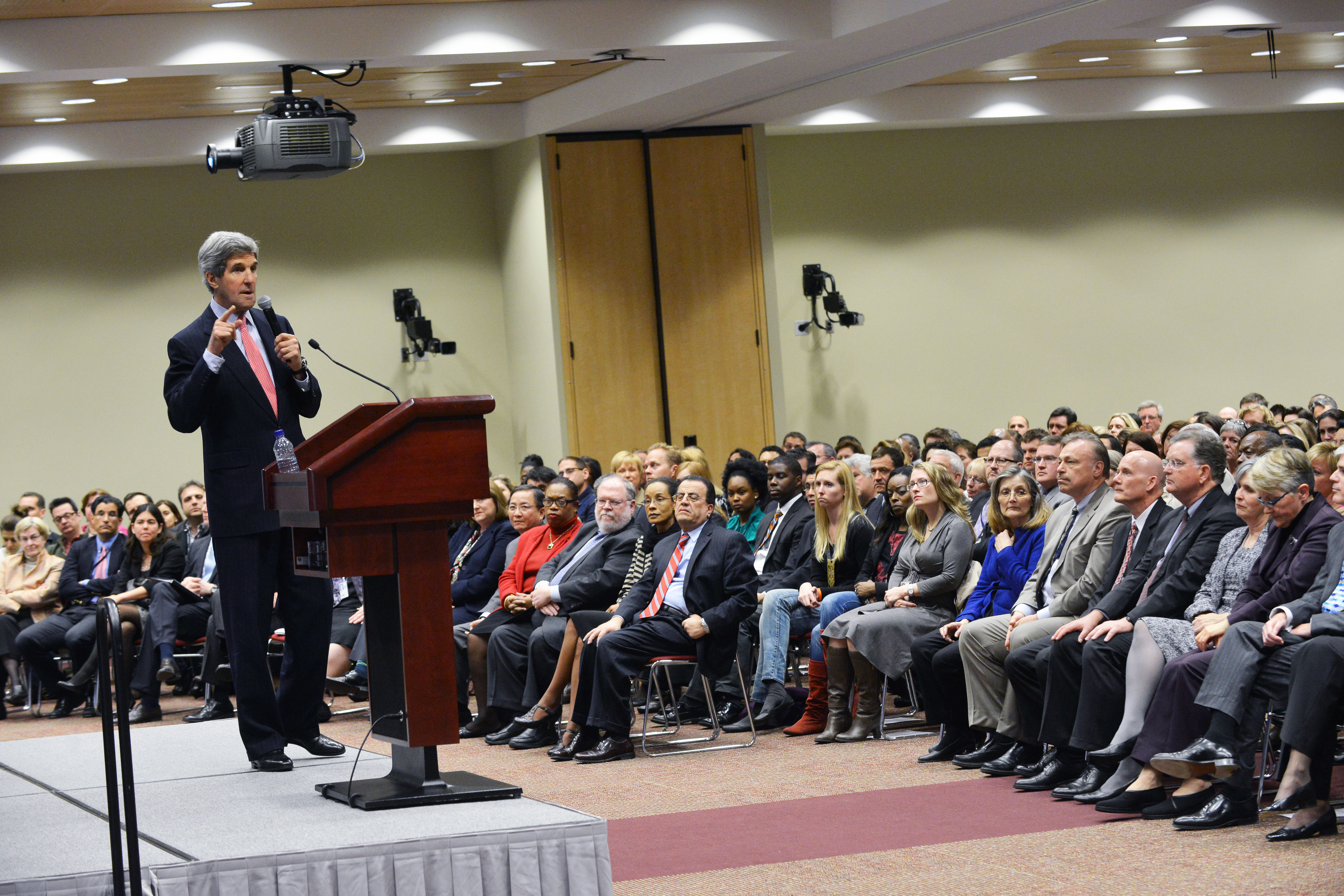 U.S. Secretary of State John Kerry delivers remarks at the Foreign Service Institute in Arlington, Virginia, on March 15, 2013. [State Department photos/ Public Domain]